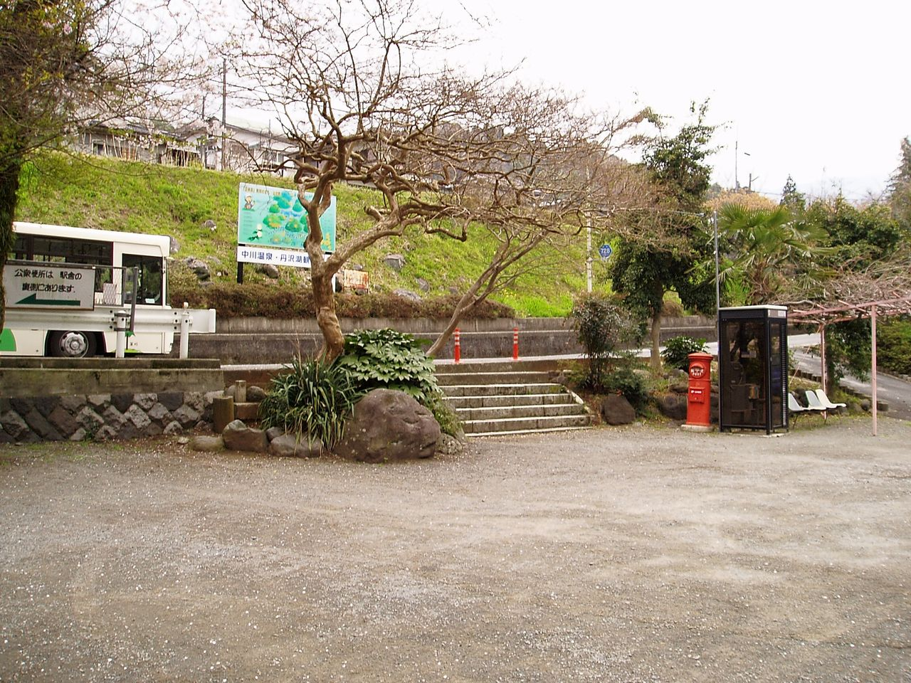 Central Japan Railway Company, front of Yaga Sta.